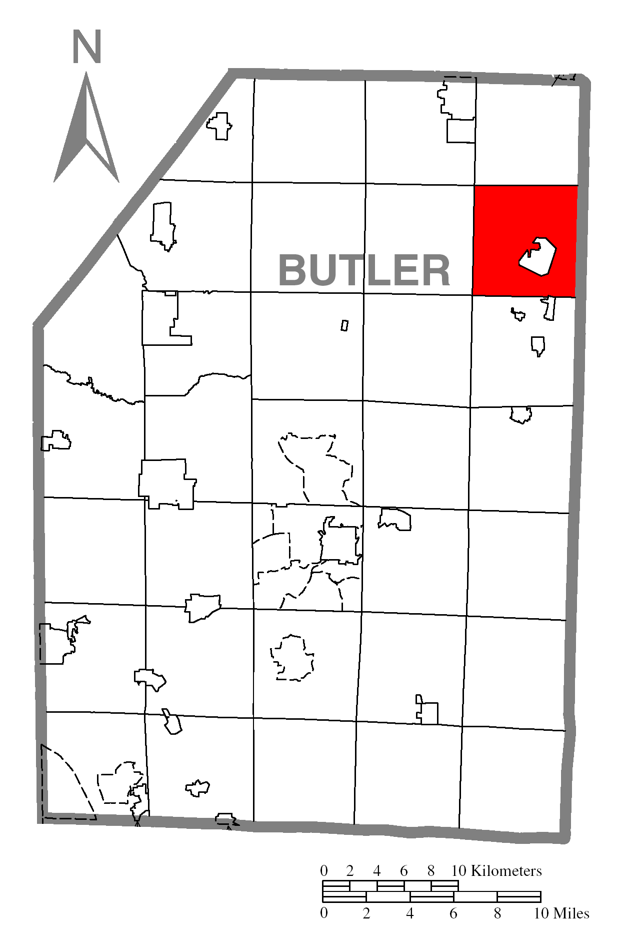 A map of Butler County showing Parker Township, Pennsylvania (alternate) highlighted on the map.